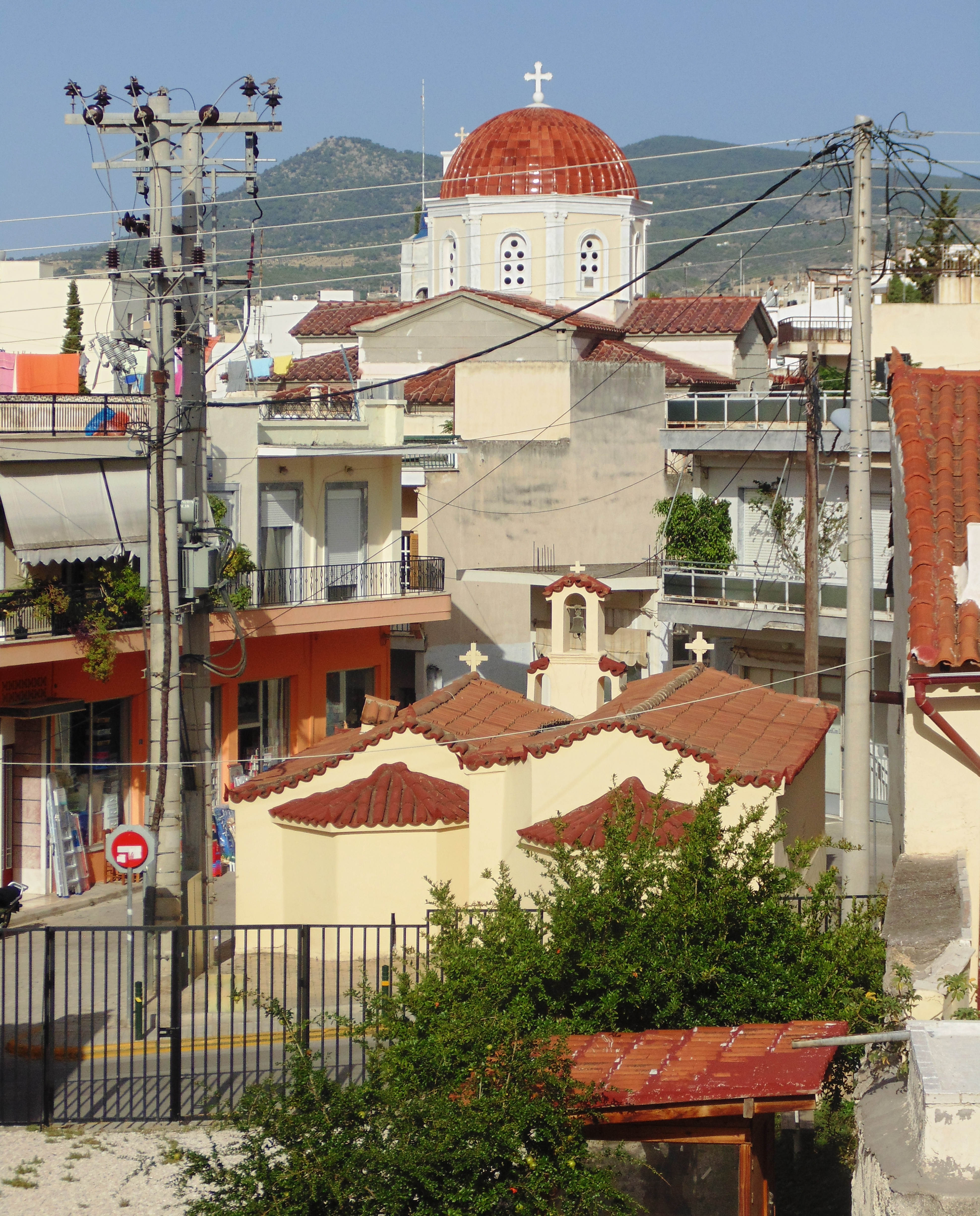 Panagia Church